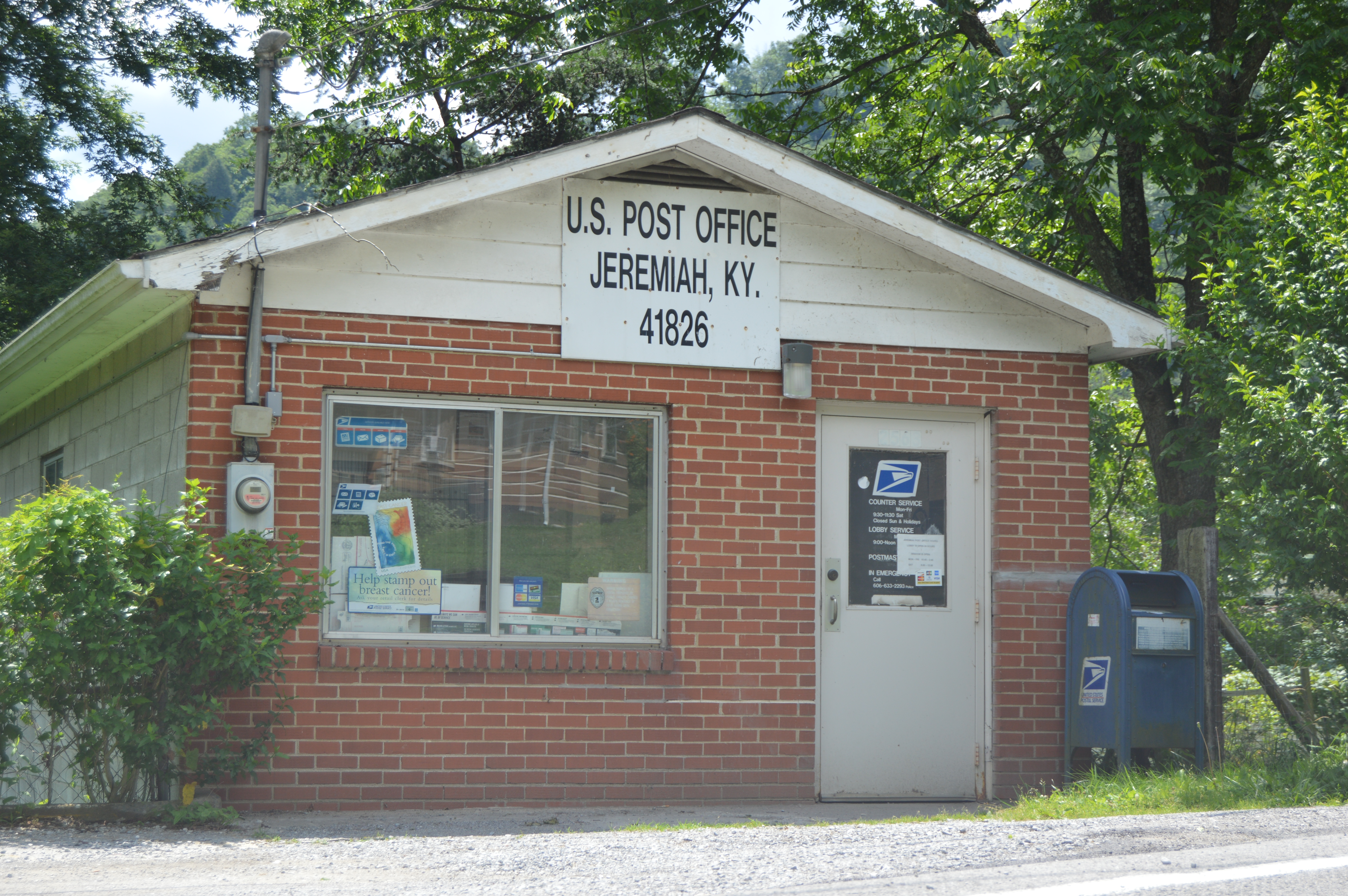 Front of the Jeremiah post office, located at 2563 Kentucky Route 7 at Jeremiah in Letcher County, Kentucky, United States.